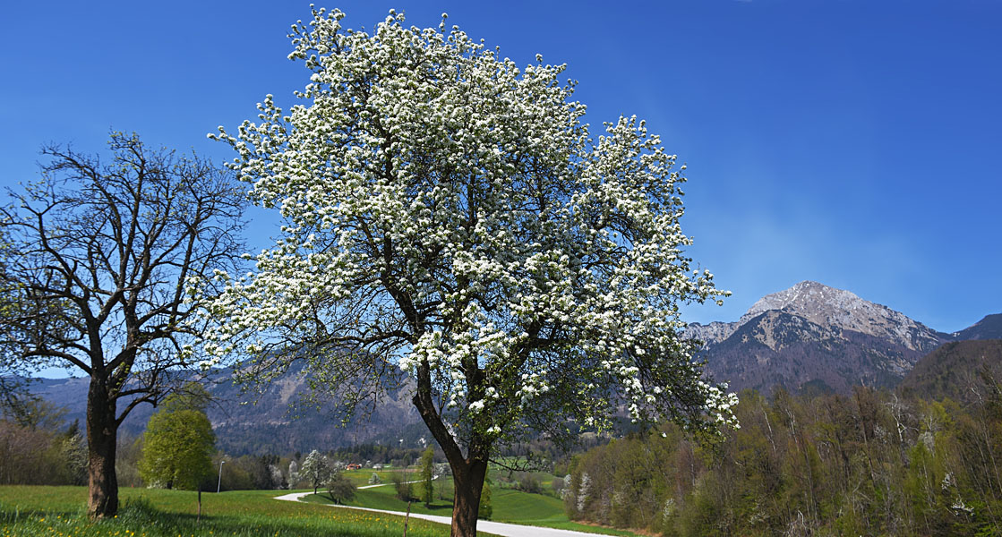 Just below the village of Povlje, right in the background is Storžič.